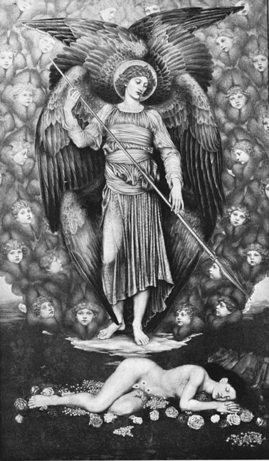 Ithuriel by Evelyn de Morgan, oil [on canvas?], before 1900. ‘Ithuriel, as represented by Mrs. De Morgan, has just found Eve and the tempter. He is accompanied by cherubs, whose threefold azure wings are as a blue cloud surrounding him. He wears a soft raiment, bright with mother-of-pearl tones. The draperies round the waist and body are rose-coloured, and so are the sleeves. The three pairs of wings, very well poised and admirably handled, are crimson-hued, with touches of grey-green here and there. Ithuriel has light hair, is pale-faced, and the well-drawn hands are as delicate as they could be. It may be thought that this Ithuriel is too mild — too much like Shakespeare's Oberon — to be in keeping with the terrific tragedy depicted in the first four books of the Paradise Lost. Eve, too, lovely as she is, seems to bear no likelihood of resemblance to Milton's superb mother of mankind. But the picture has a sweet serene grace which should make us glad to accept from Mrs. De Morgan another Eve and another Ithuriel, true children of her own fancy.’ — W. Shaw Sparrow